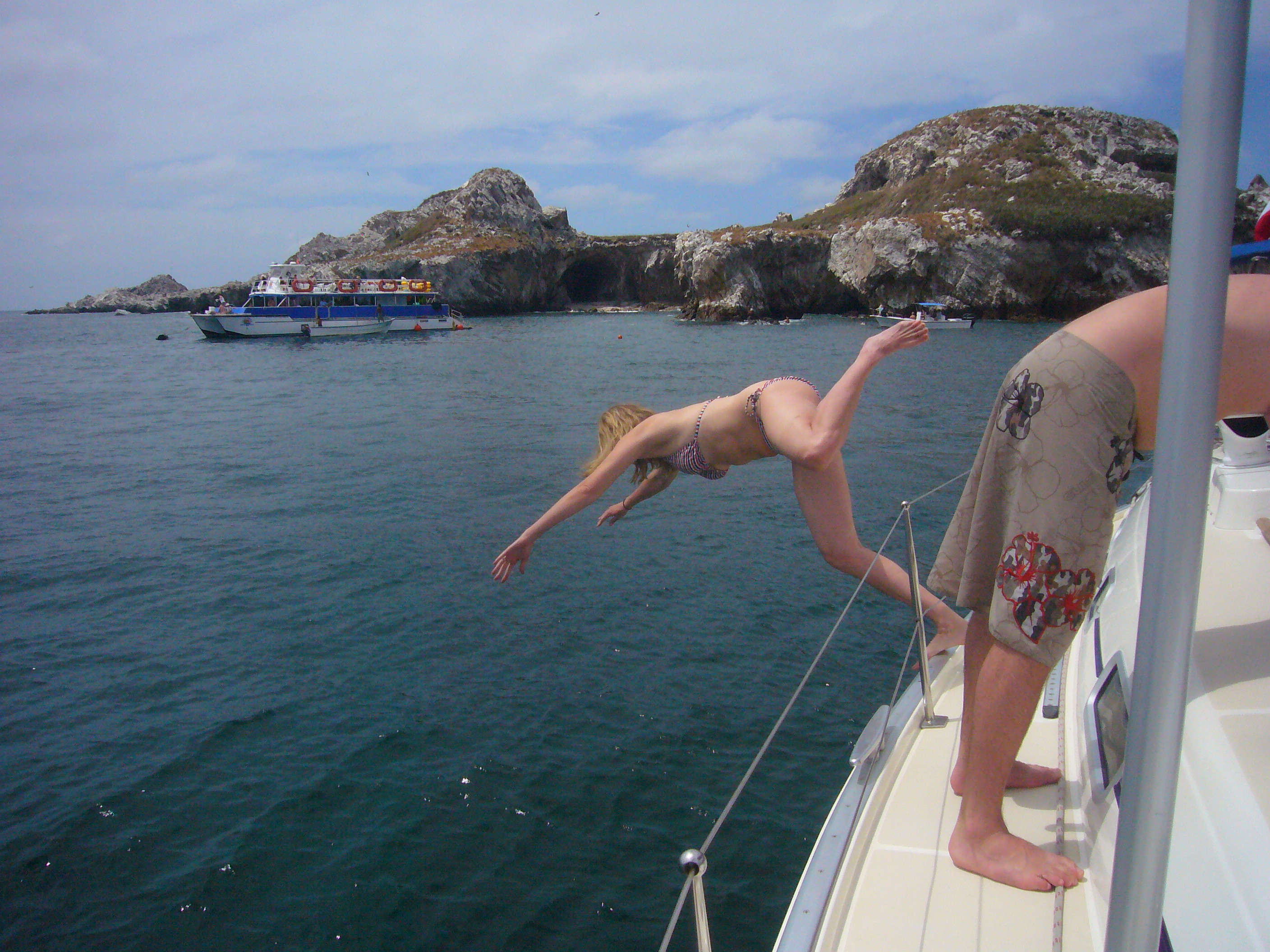 Woman diving off a boat into the sea near Marieta Islands, Nayarit, Mexico.